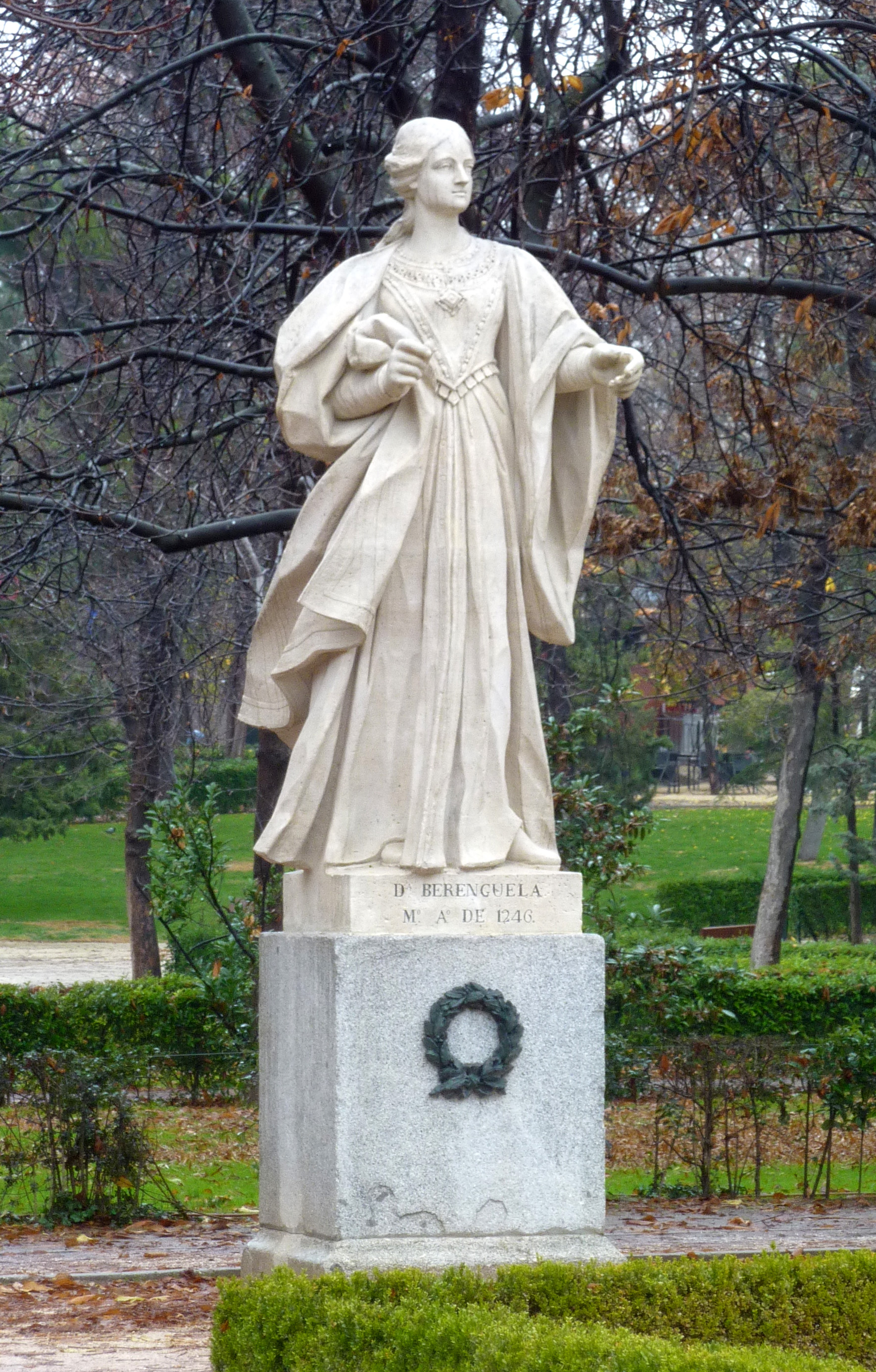 Alfonso de la Grana: Berenguela of Castile (1753), Paseo de la Argentina in Retiro Park in Madrid (Spain).